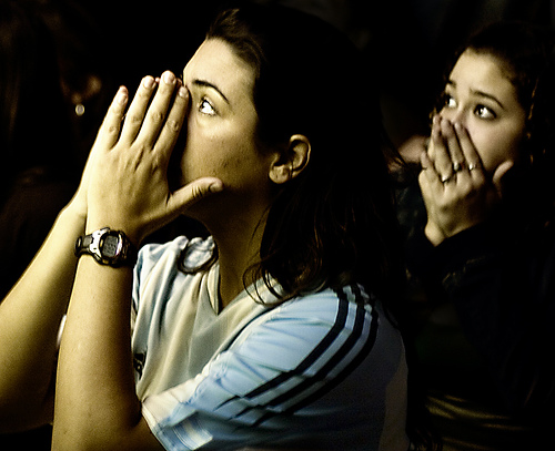 Sufrimiento. FIFA Mundial 2006. Durante Argentina-Alemania. En un bar de Buenos Aires. Football! It's a religion of it's own. True fans most probably have a whole different set of chemicals that flow in their brains which are no where to be found in anyone who is not a fan of football. Like they say, "Every four years, a ball does the impossible." The bar had an energy that was (proportionally) equal to that of a packed stadium. Chants of Ole, Ole, Ole! and Ar-GEN-TINA! were defeaning but very amusing to sing along with. Not being from Argentina, I can NEVER connect with these people emotionally but I can semi-understand their super-hyper-excitement as I'm the same way watching my countrymen play cricket. The end of the quarter, semi or full Final games will make these fans cry regardless of what the outcome is, they could be happy or sad tears... Most of the more-exciting emotive frames were captured on my 35mm film camera, so you'll have to wait till I develop the rolls on Monday. Stand by... Photos taken at